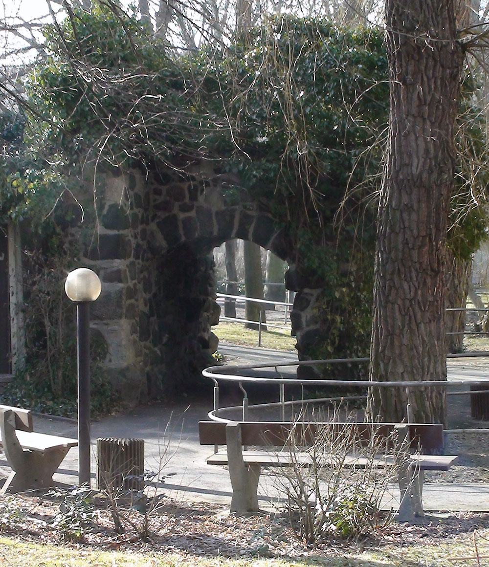 Remains of the stone cave of the former seaside resort Mariendorf on the grounds of the today's senior citizen center